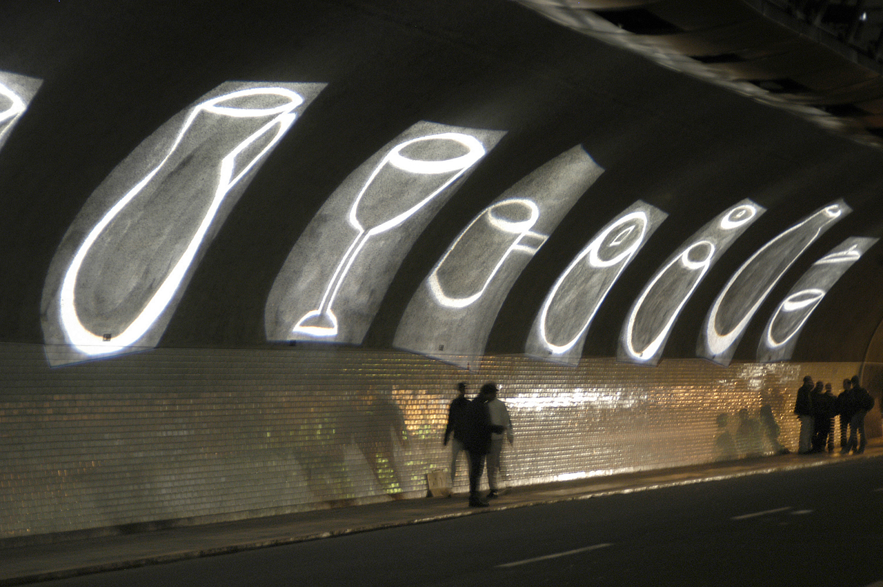 This urban installation designed by Philippe Mouillon, draws its inspiration from the tradition of shadows and lights of Arab architecture, to question the local identity in the age of globalization